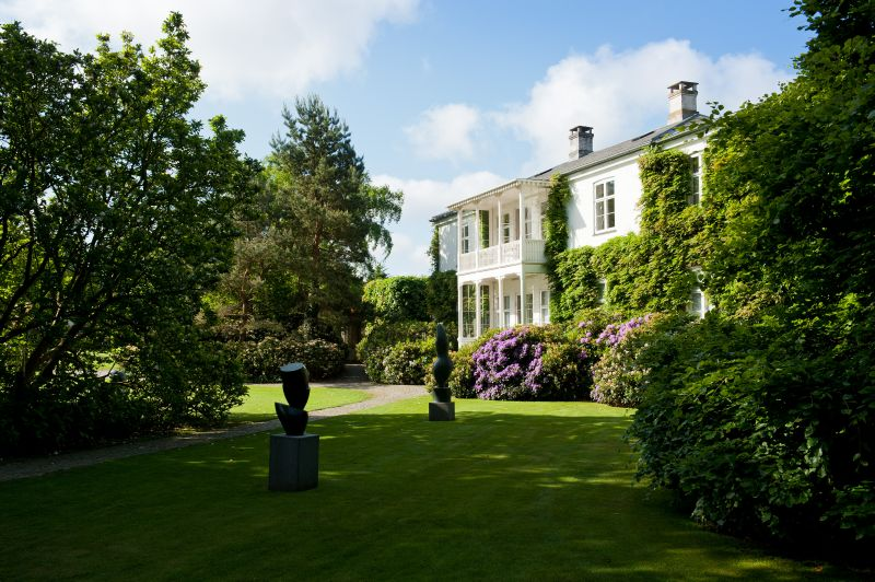 Louisiana Museum of Modern Art